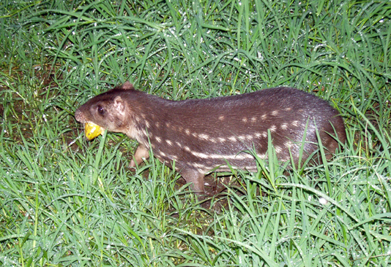 Cuniculus paca, common name Tepezcuintle, mammal of the rodent family is native to the rainforest of Costa Rica, however it can also be found in mountain forests, introduced by the locals.